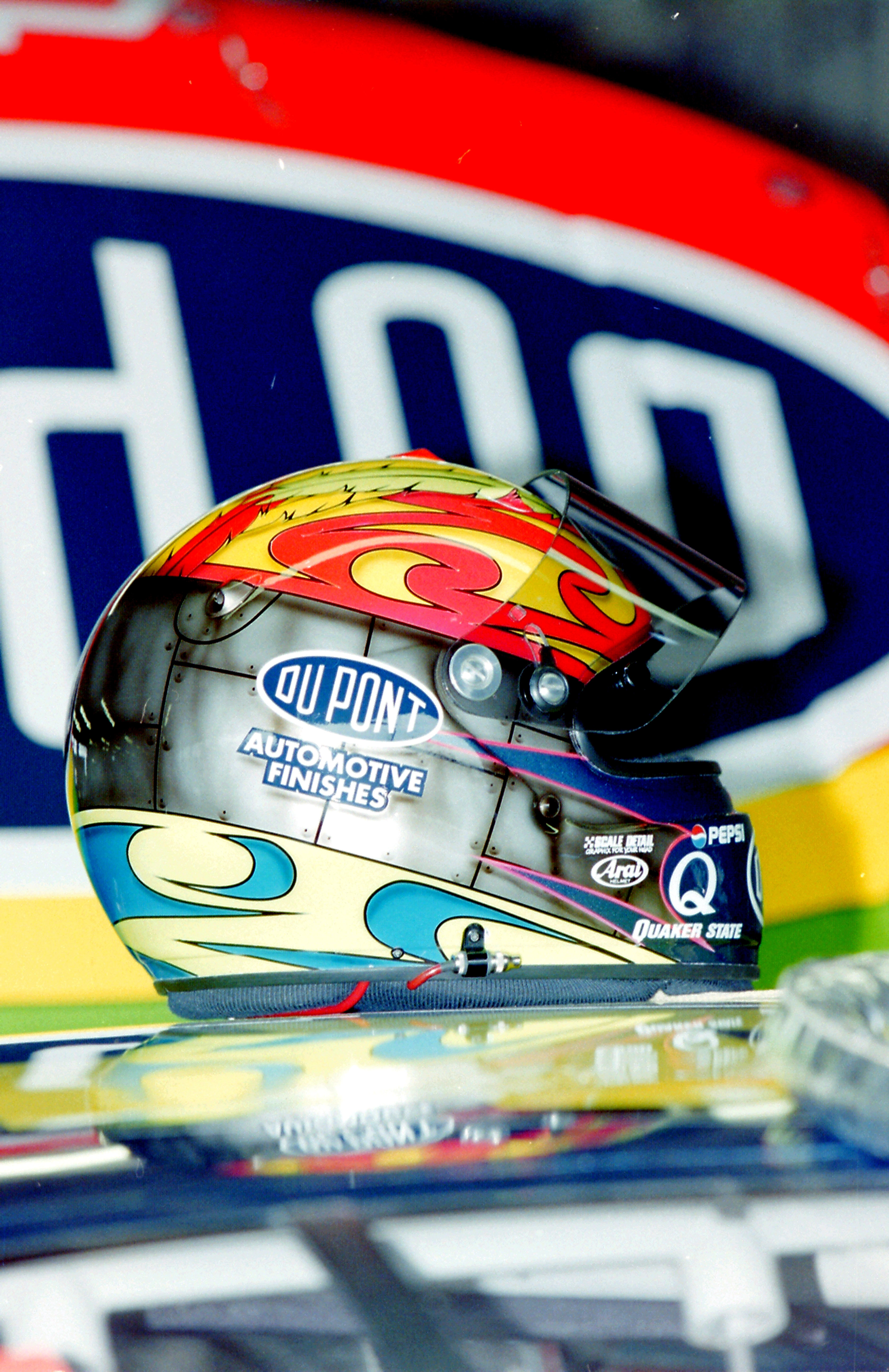 Jeff Gordon helmet in Cup Series